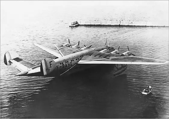 SNCASE SE-200 photo from L'Aerophile September 1945